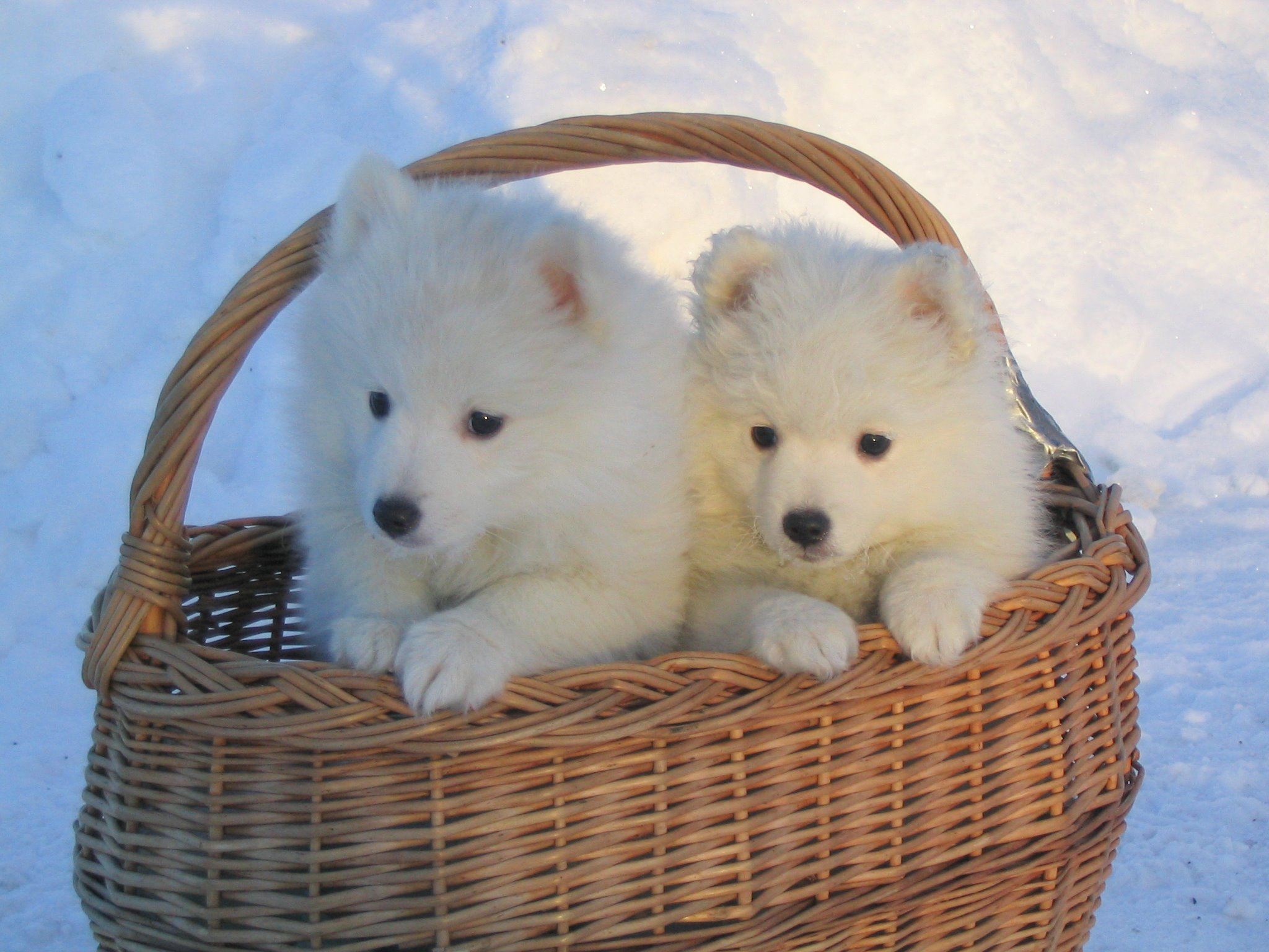 puppies of Japanise Spitz.